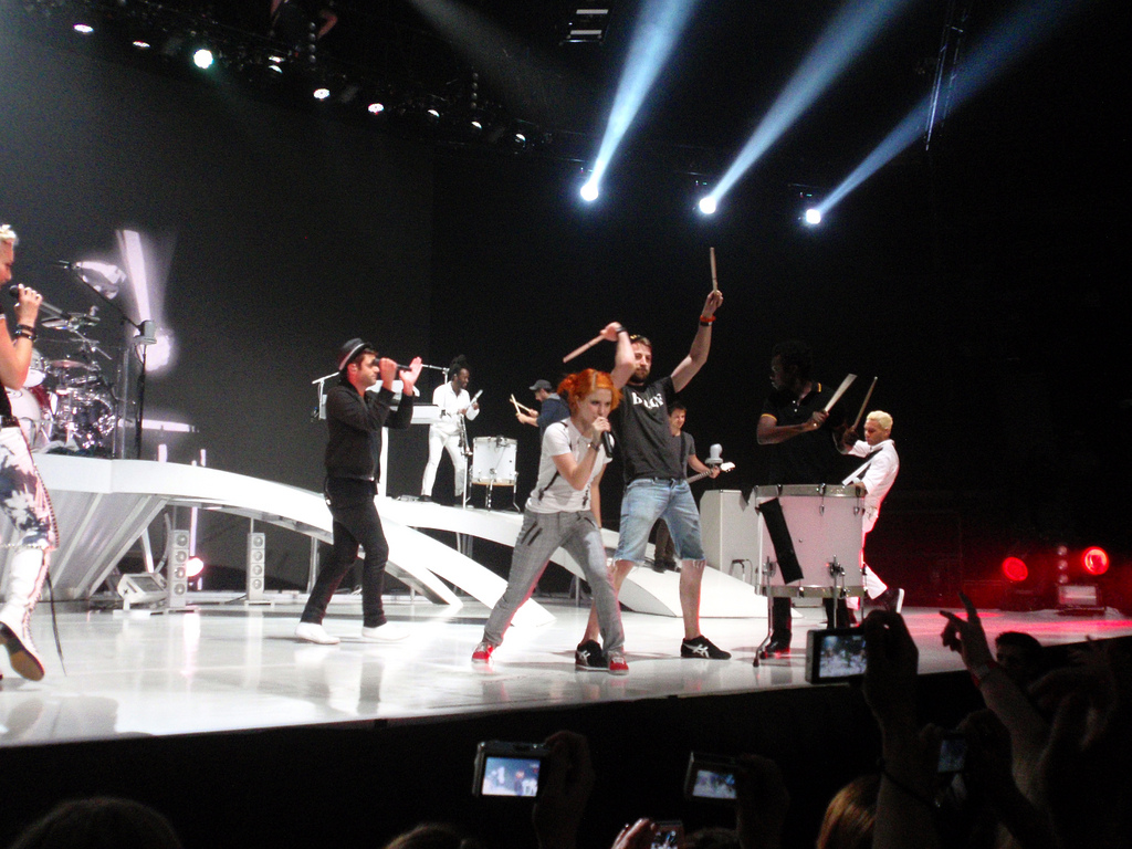 Paramore and No Doubt performing during the Summer Tour 2009 in General Motors Place in Vancouver.